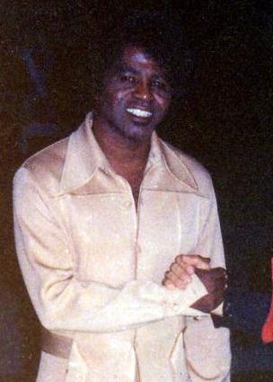 James Brown, as released by image creator Lars Jacob ProdPlace: Fort Homer Hesterly Armory, Howard Ave., Tampa, Florida